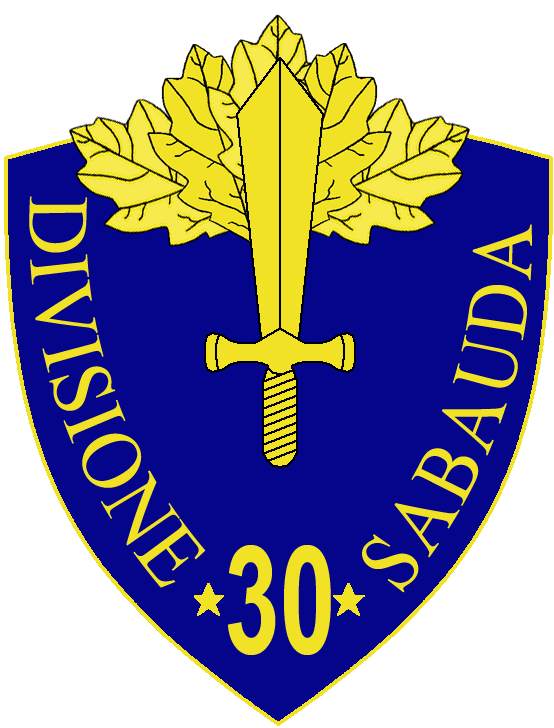 30a Divisione Fanteria Sabauda insignia, Regio Esercito, Italy, WWII